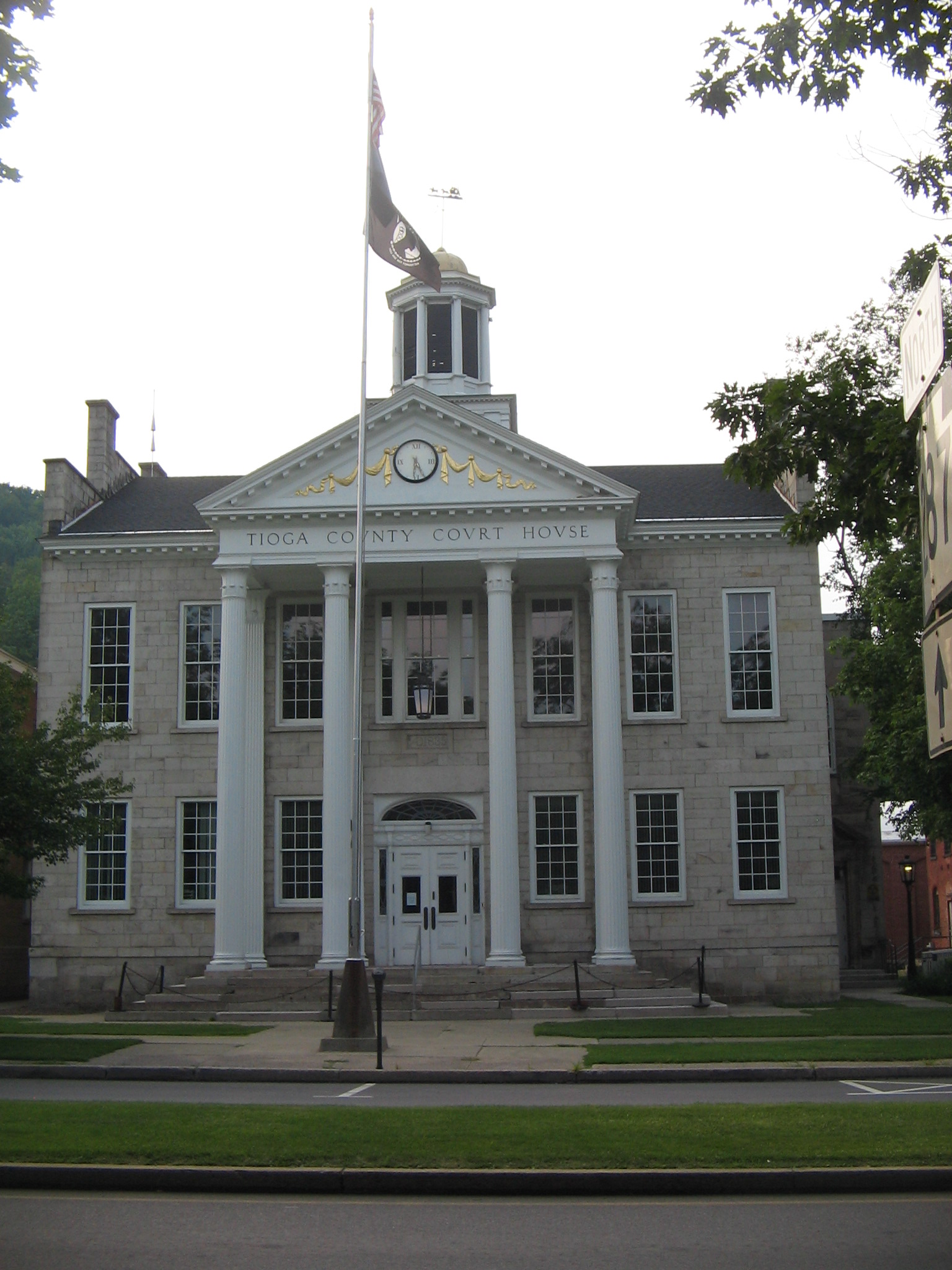 Tioga County Courthouse in Wellsboro, Tioga County, Pennsylvania, United States